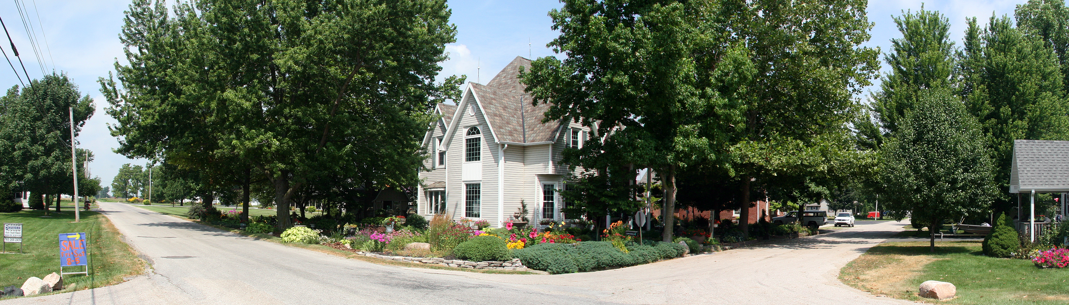 Looking northwest from the corner of Main Street (left) and Walnut Street (right) in the town of Bringhurst, just south of Flora in Carroll County, Indiana.